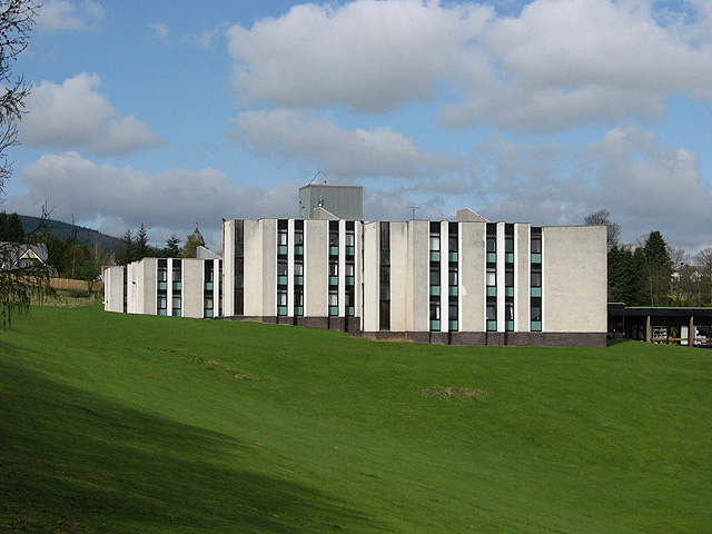 Students' Residences This 1968-9 building, accessed from Tweed Road, is the Halls of Residence for the Heriot Watt University, Scottish Borders Campus. A small part of the building extends into the adjoining square, but it is mostly in NT 5034.